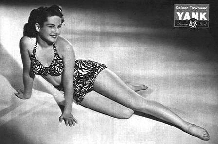 Pin-up photo of Colleen Townsend for the Dec. 29, 1944 issue of Yank, the Army Weekly, a weekly U.S. Army magazine fully staffed by enlisted men.